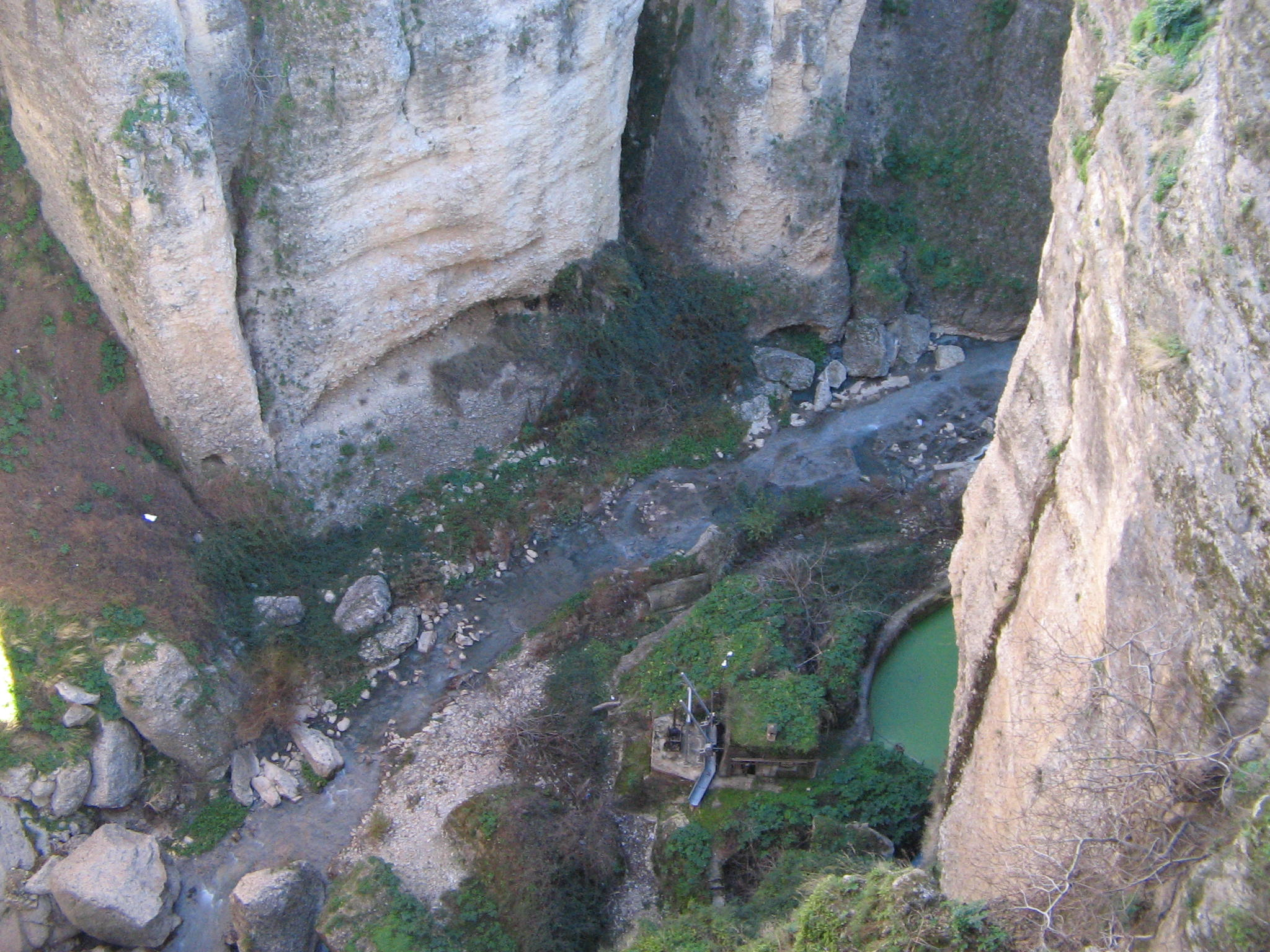 Wiew of the Guadalevín river at Ronda. During the Spanish Civil War, the nationalists allegedly threw supporters of the republicans to their deaths from the bridge.